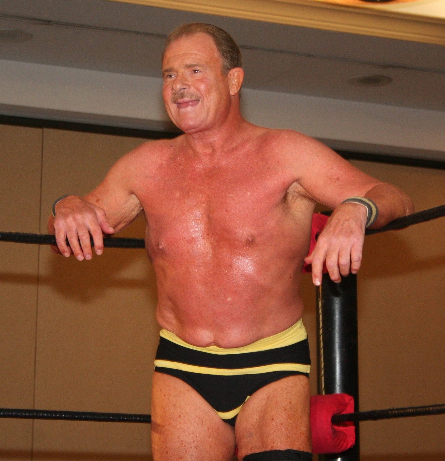 B Brian Blair at the Mid-Atlantic Fanfest in August 2014.